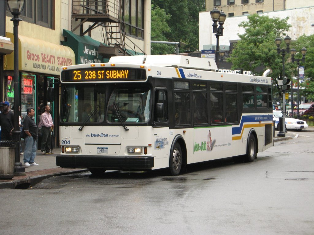 Westchester County, NY Bee-Line Orion VII 07.501 hybrid #204 loading passengers at South Broadway and Main Street in Yonkers, New York, on the 25 line due east.